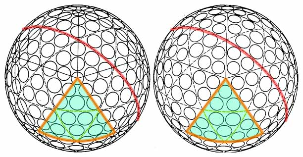 two very similar icosahedron golf ball designs.